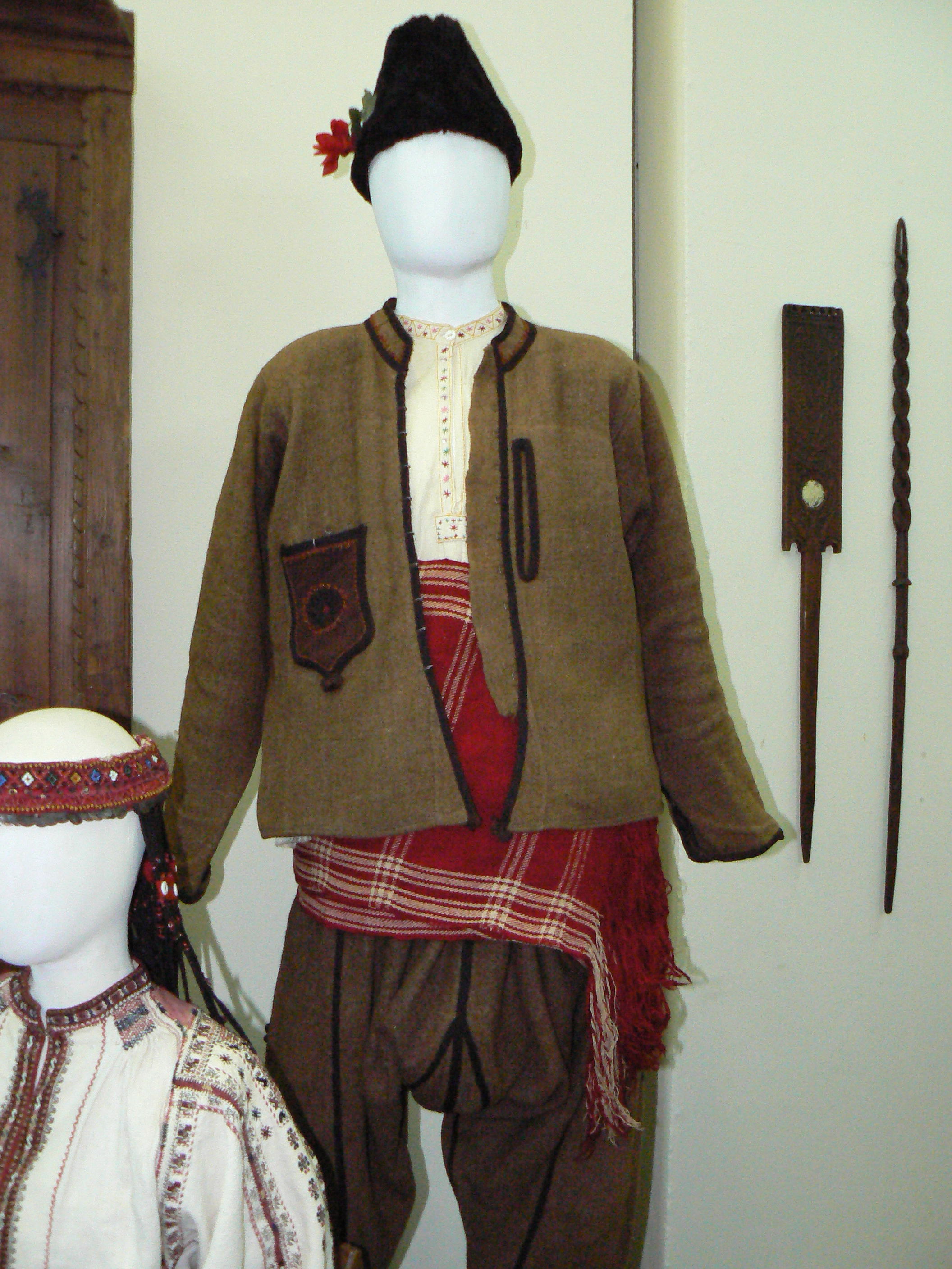 Bulgarian male folk costume, exhibit of the National Ethnographic Museum (unknown region)